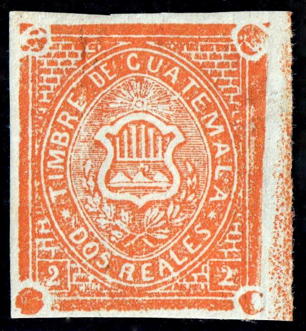 Guatemala 1868 mint first issue 2 reales revenue. Catalogue: Forbin 2